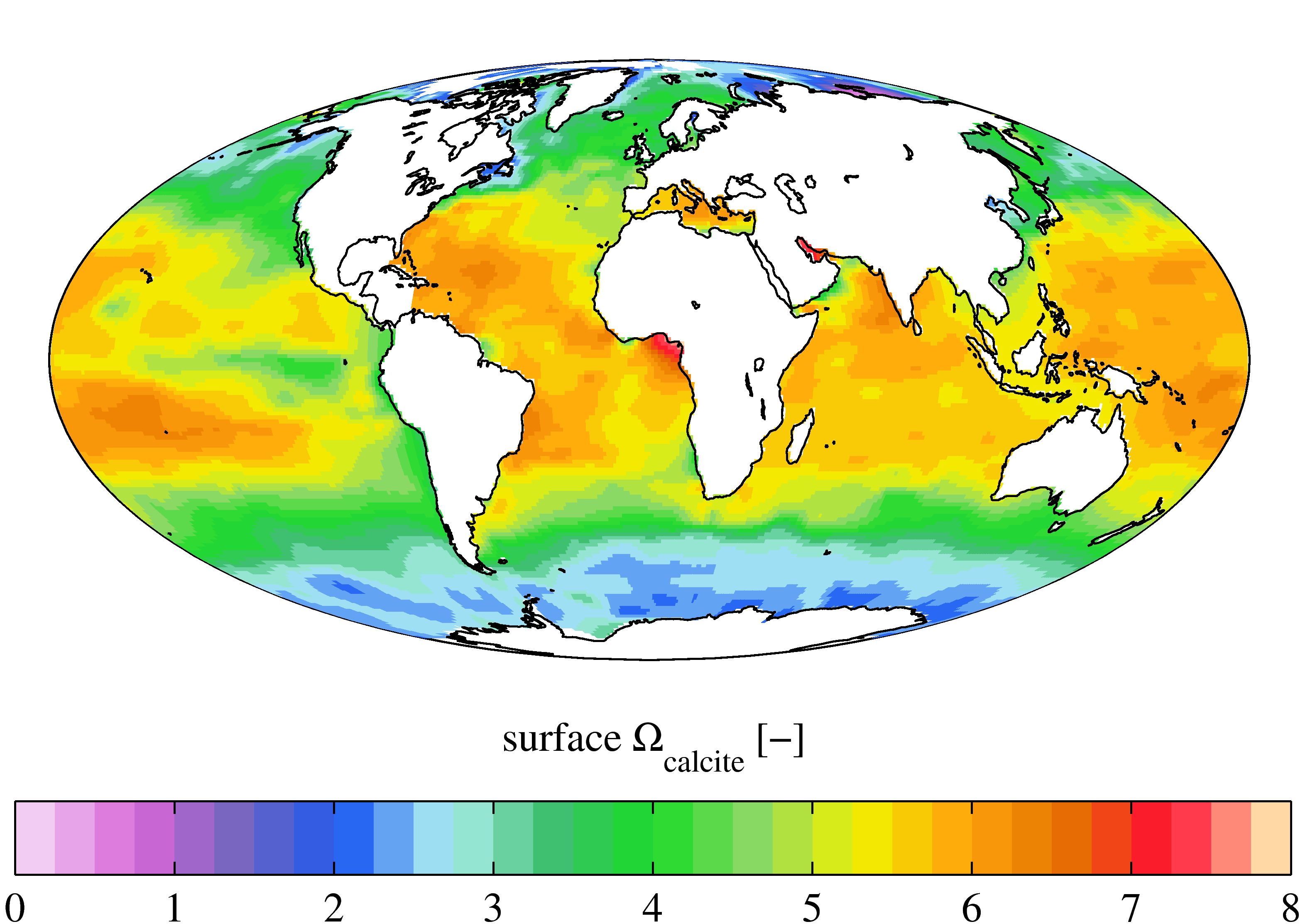 Calculated annual mean sea surface omega calcite for the present day (normalised to year 2002) from the Global Ocean Data Analysis Project v2 (GLODAPv2) climatology. Sources are given below. This property is the normalised saturation state of the calcium carbonate biomineral, calcite. Values of less than 1 indicate undersaturation and are favourable to dissolution, while values greater than 1 indicate oversaturation. It is plotted here using a Mollweide projection (using MATLAB v2013a). Note that the GLODAPv2 climatology is missing data in certain oceanic provinces including the Arctic Ocean, the Caribbean Sea and certain inland seas. Lauvset, S. K., Key, R. M., Olsen, A., van Heuven, S., Velo, A., Lin, X., Schirnick, C., Kozyr, A., Tanhua, T., Hoppema, M., Jutterström, S., Steinfeldt, R., Jeansson, E., Ishii, M., Perez, F. F., Suzuki, T., and Watelet, S.: A new global interior ocean mapped climatology: the 1° × 1° GLODAP version 2, Earth Syst. Sci. Data, 8, 325-340, 2016 Key, R.M., A. Olsen, S. van Heuven, S. K. Lauvset, A. Velo, X. Lin, C. Schirnick, A. Kozyr, T. Tanhua, M. Hoppema, S. Jutterström, R. Steinfeldt, E. Jeansson, M. Ishi, F. F. Perez, and T. Suzuki. 2015. Global Ocean Data Analysis Project, Version 2 (GLODAPv2), ORNL/CDIAC-162, NDP-P093. Carbon Dioxide Information Analysis Center, Oak Ridge National Laboratory, US Department of Energy, Oak Ridge, Tennessee.